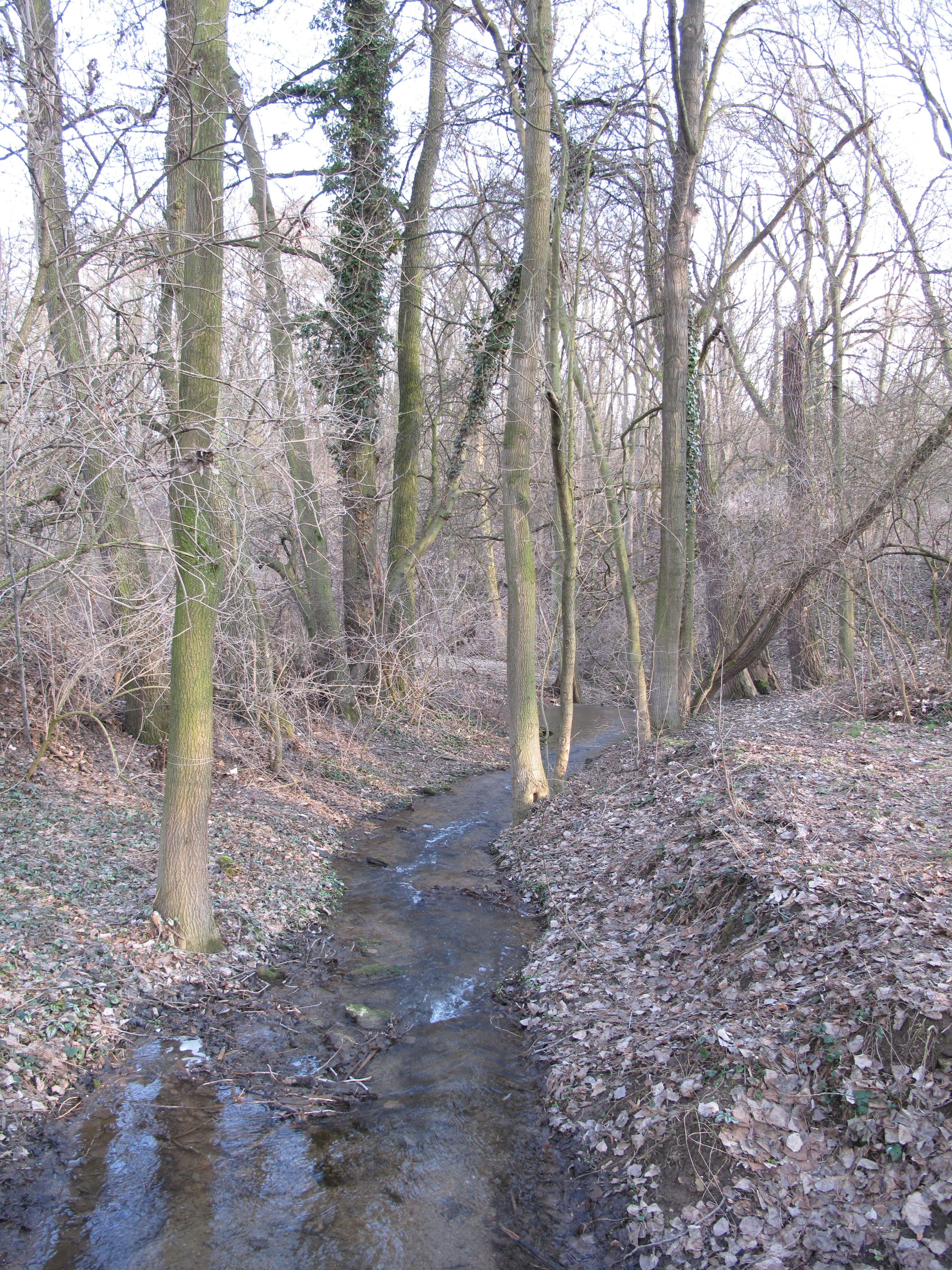 Bylanka stream as seen in the gardeners collony in the quarter of Žižkov, Kutná Hora, Czech Republic.